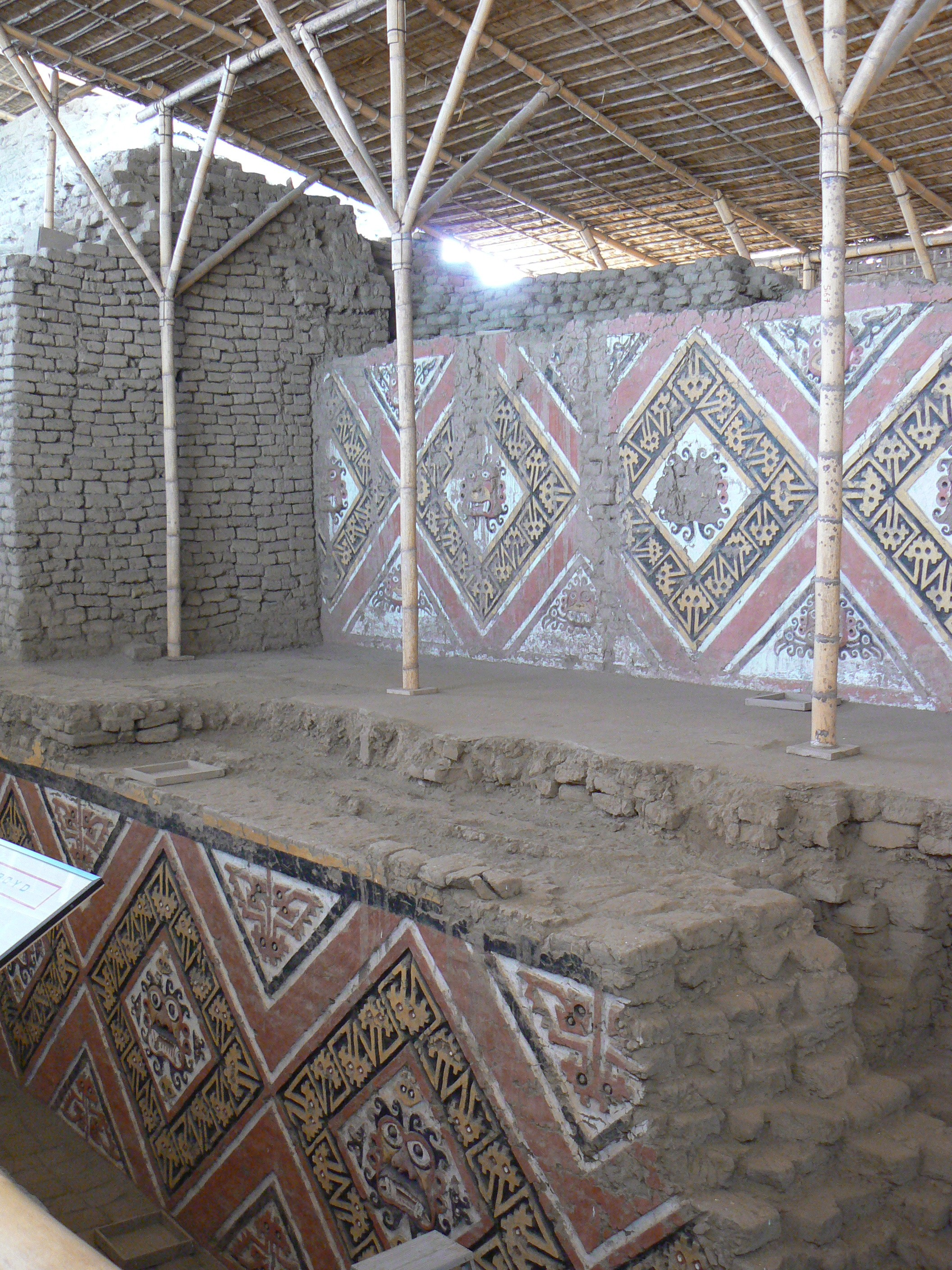 Two layers of the Huaca de la Luna showing the iconic bas-relief figure this ancient Moche temple near Trujillo, Peru is known for.